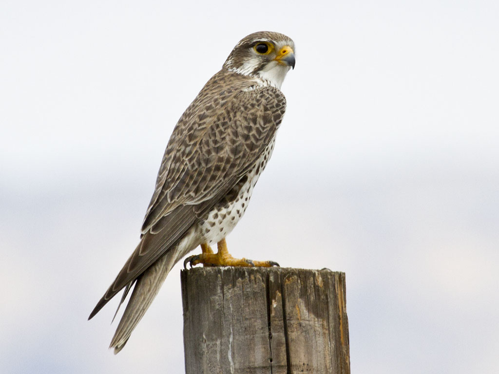 A Prairie Falcon in San Luis Obispo, California, USA.